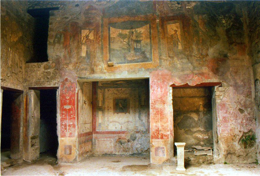 Villa of Ara Massima, Pompeii, Campania, Italy.